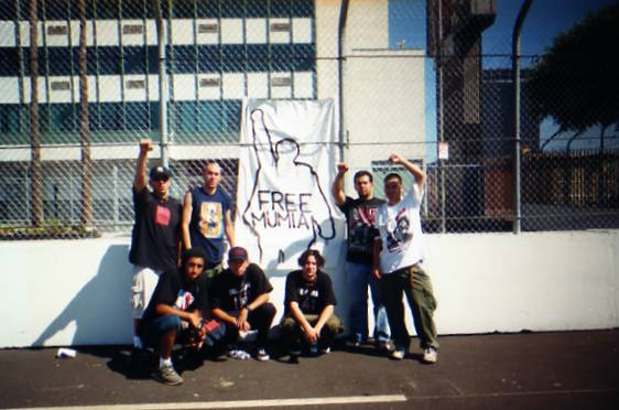 DNC-2000 -(from left to right standing) Alejandro De La Cruz , theets, E, Leroy -(left to right crouched) unknown, Joe, DThe Democratic National Convention: Mumia Abu-Jamal Banner With Rage Against The Machine Fans